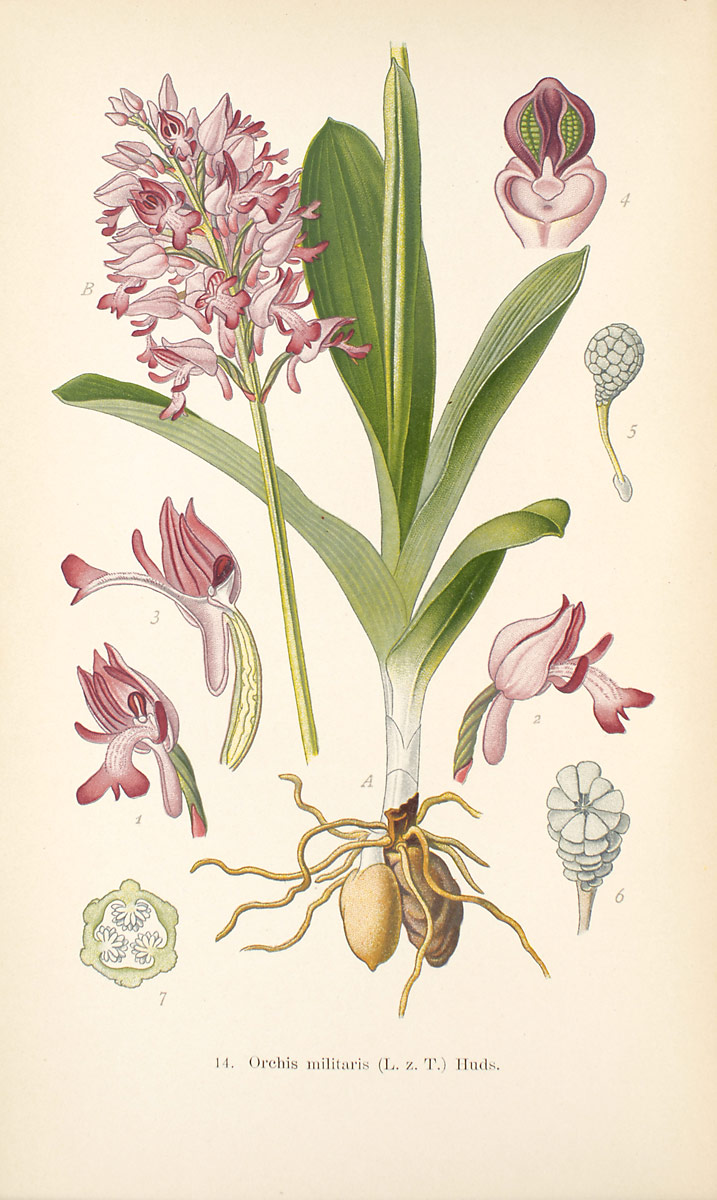 Military Orchid